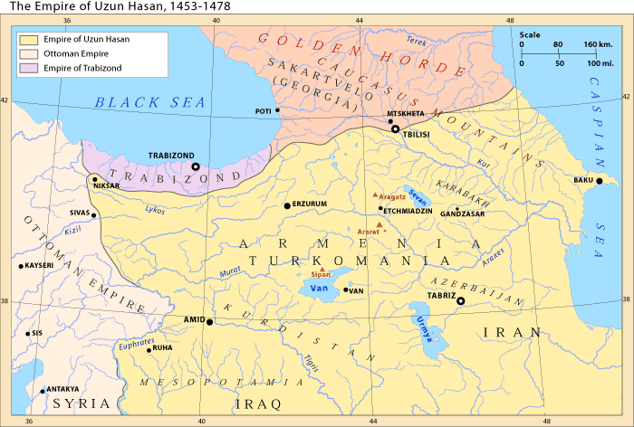 The Empire of Uzun hasan, 1453 - 1478.